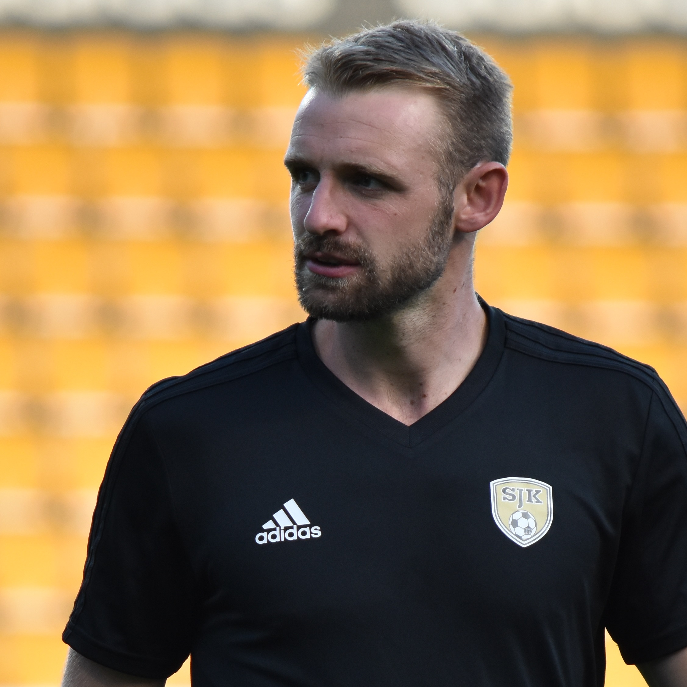 Association football player Richie Dorman (SJK)